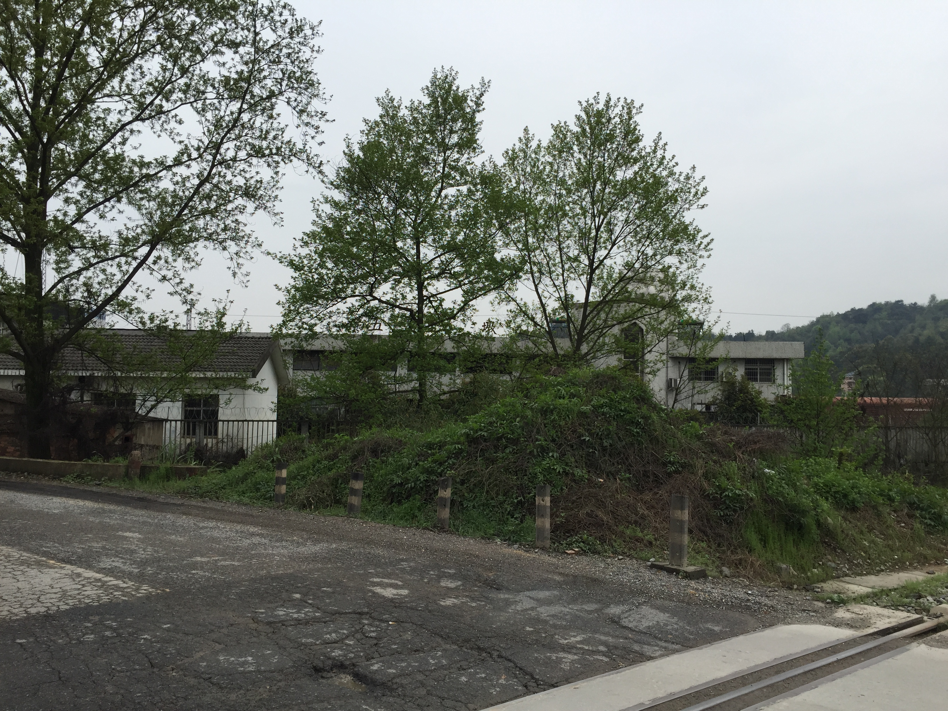 And here's the facade...